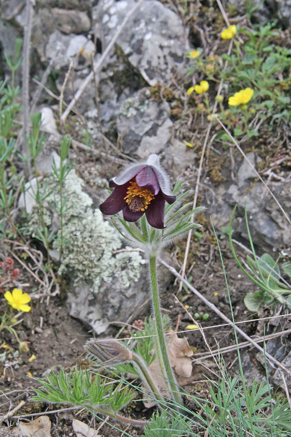 Pulsatilla pratensis subsp. bohemica Author:Prazak